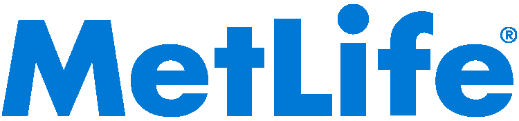 Rasterisation of the vector logo embedded in This high-resolution PNG is intended to replace the low-quality JPEG :Image:55555490201092150557V1F3 1 01 MetLifelogo.jpg.